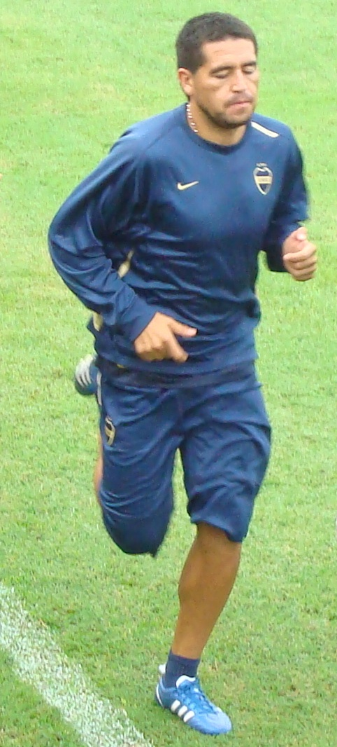 Juan Román Riquelme, training day (Casa Amarilla, Boca Juniors)